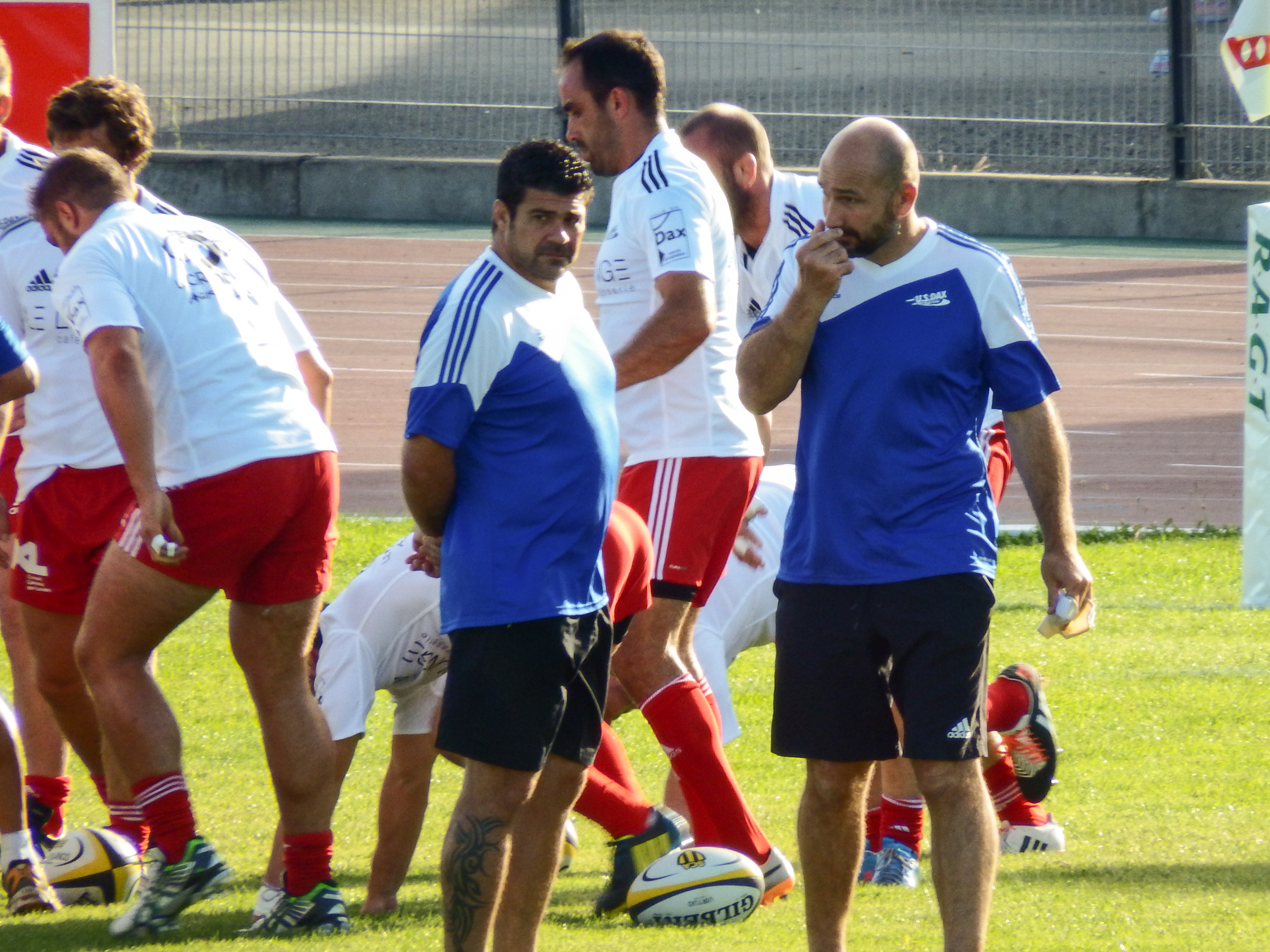 Pro D2 2014-2015 — 13 September 2014, Stadium municipal d'Albi. Match between: SC Albi — US Dax